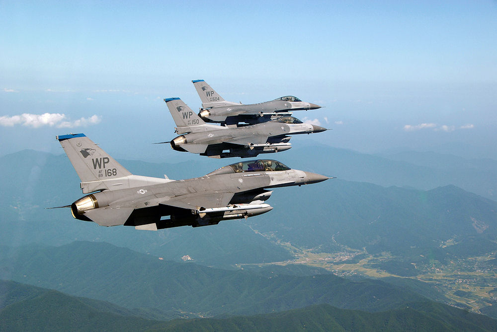 Republic of Korea Air Force Lt. Gen. Cho Won Kun, Air Force Operations Center commander, flies with the 35th Fighter Squadion out of Kunsan Air Base Sept 10. (Air Force photo/Tech Sgt. John Cronin)